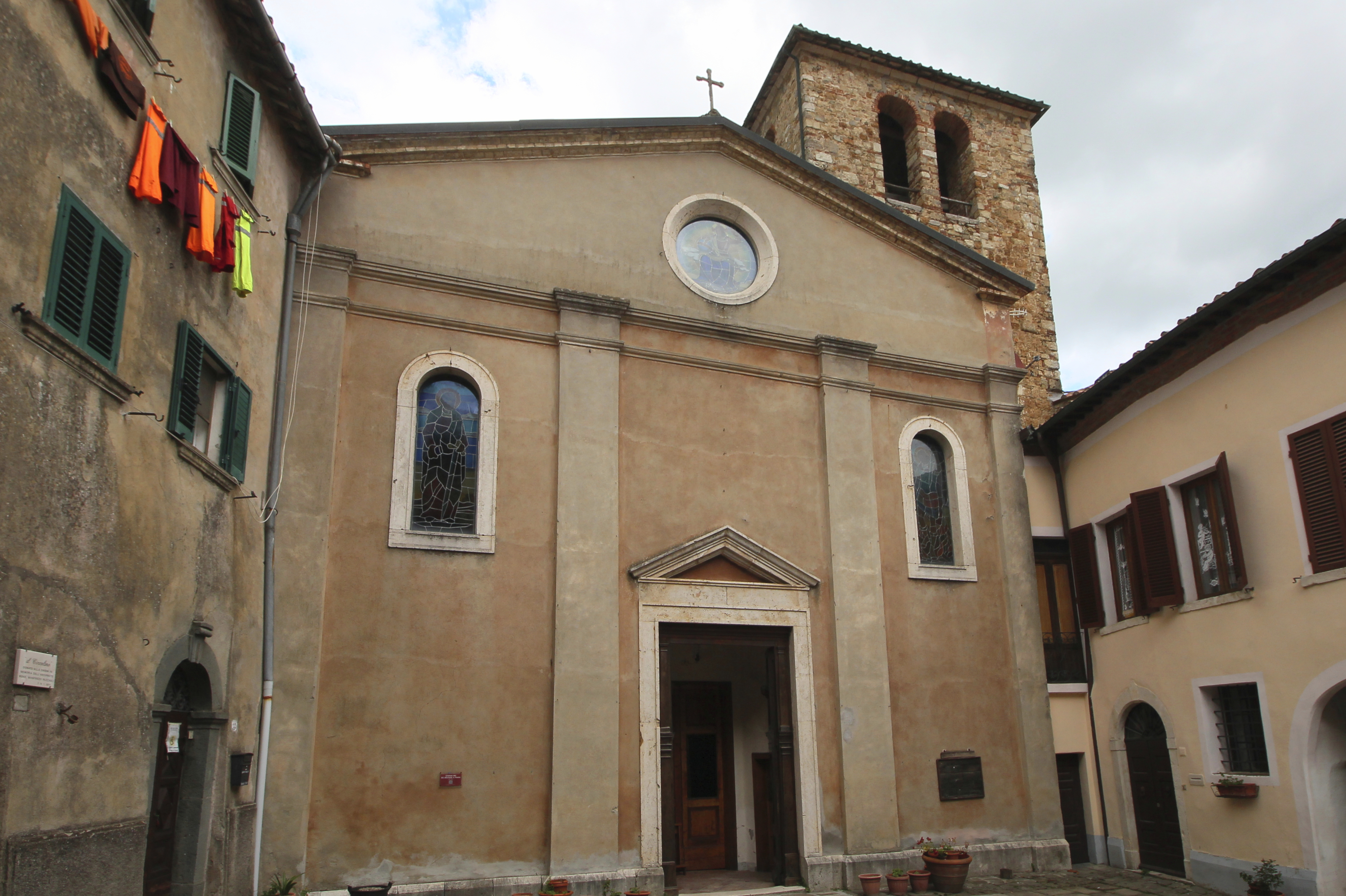 church Santi Paolo e Michele, Montieri, Province of Grosseto, Tuscany, Italy